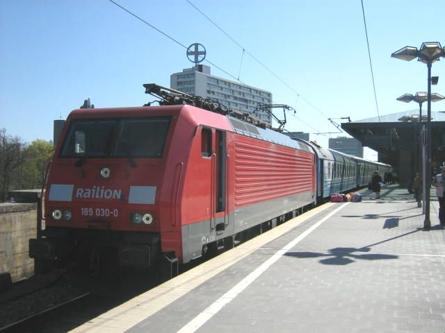 Locomotive of Sibirjak express departing from Berlin Zoologischer Garten railway station